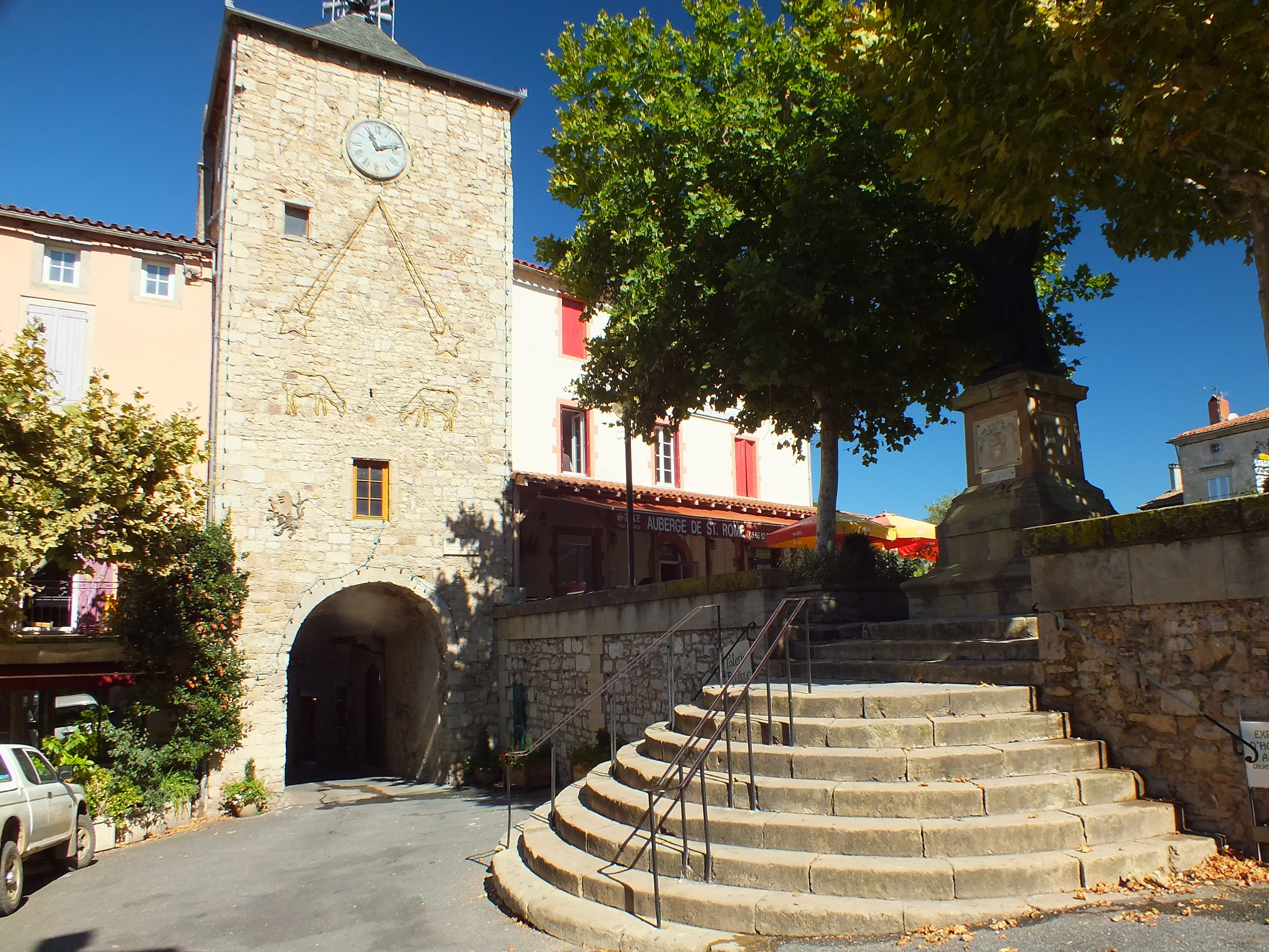 Saint-Rome-de-Tarn is a village and commune in southern Aveyron, in the Raspes de Tarn region.